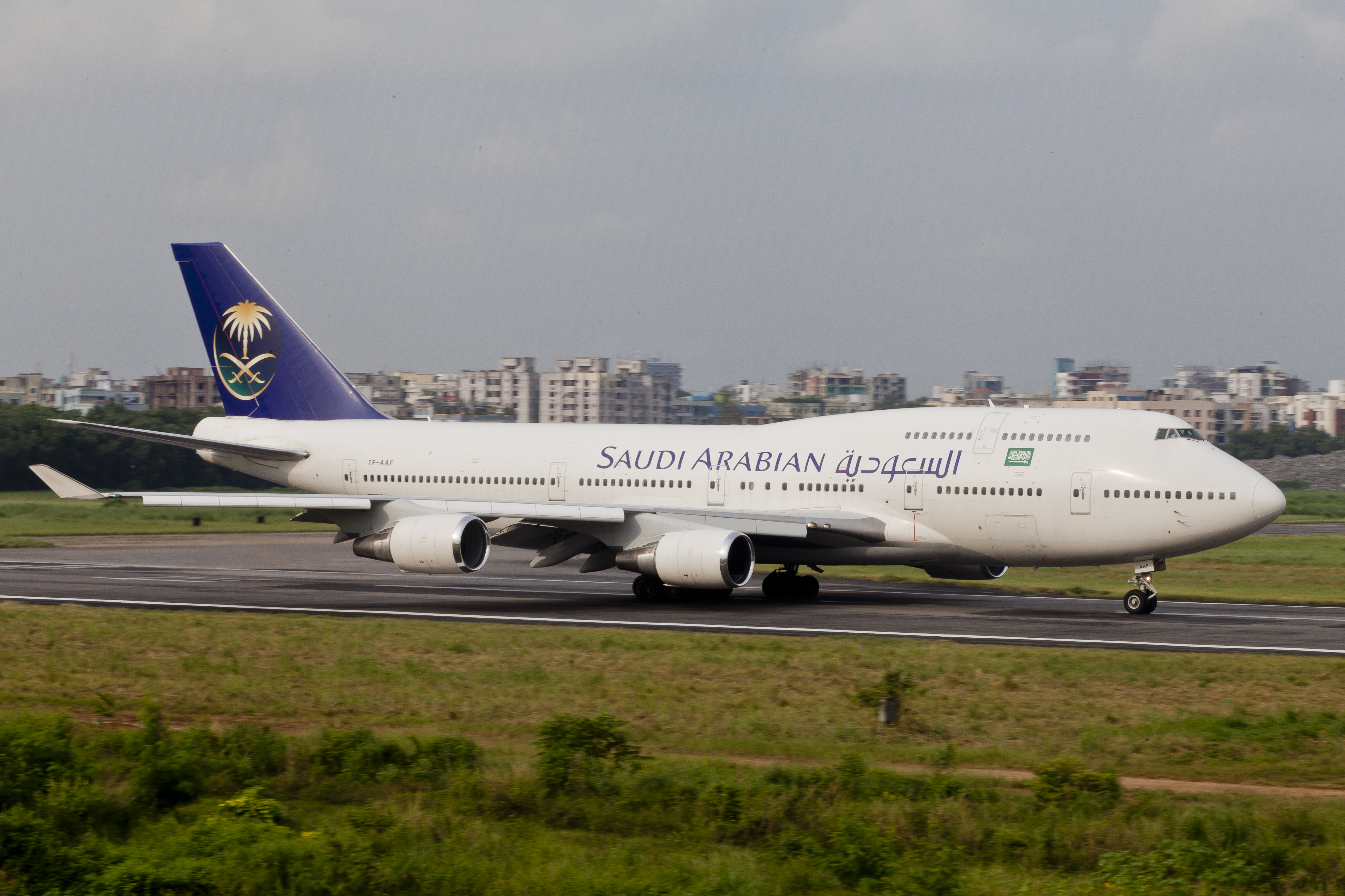 Saudi Arabian Airline's newly leased (at 05-09-2012) B747 from Air Atlanta Icelandic lined up for Take Off at Hazrat Shahjalal International Airport - VGHS